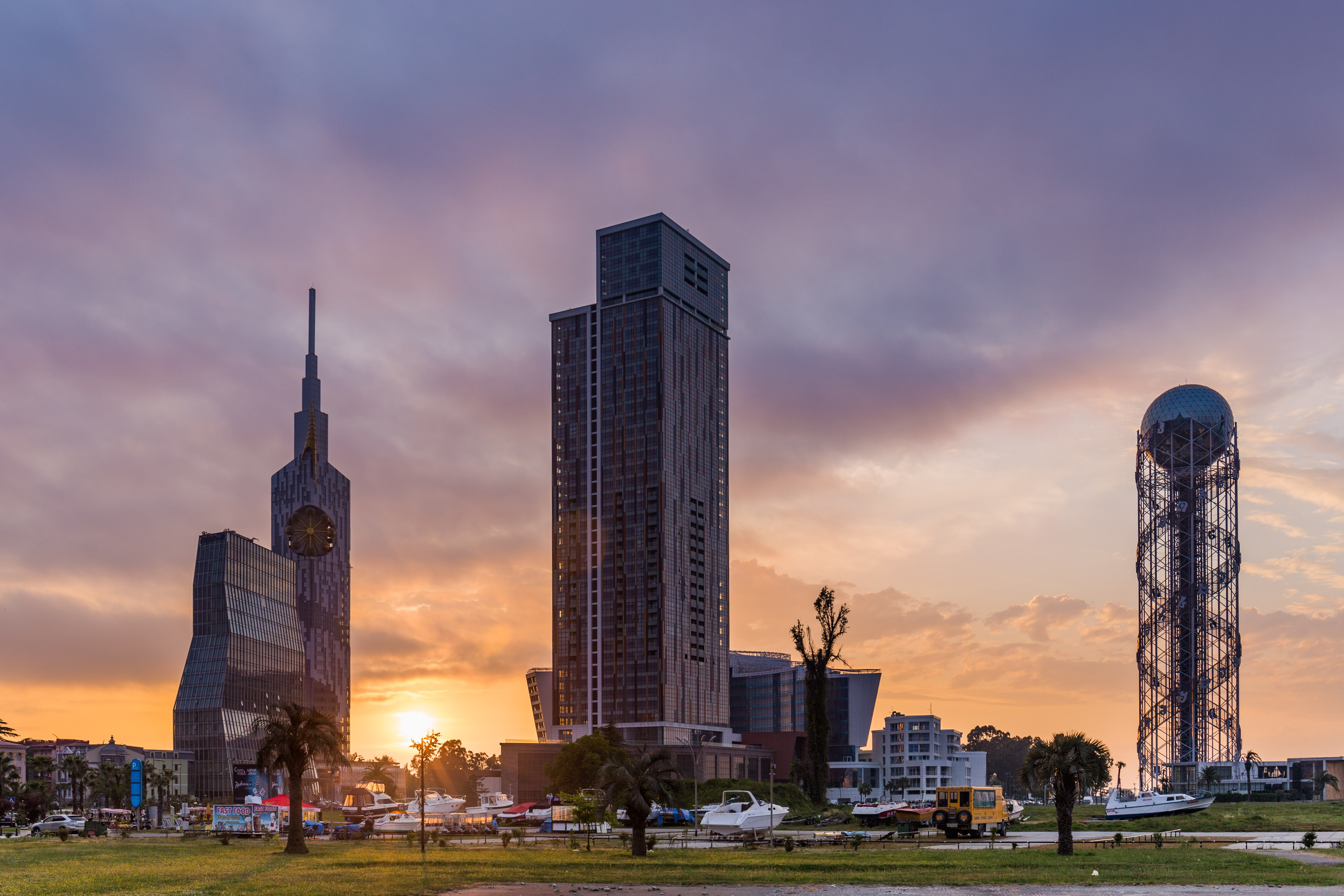 Batumi, Georgia